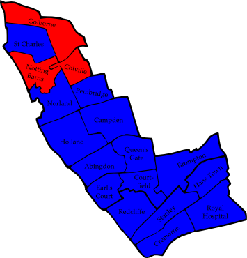 A map of the results of the 2006 Kensington and Chelsea Council election. Colour legend by wards won: Conservative party Labour party